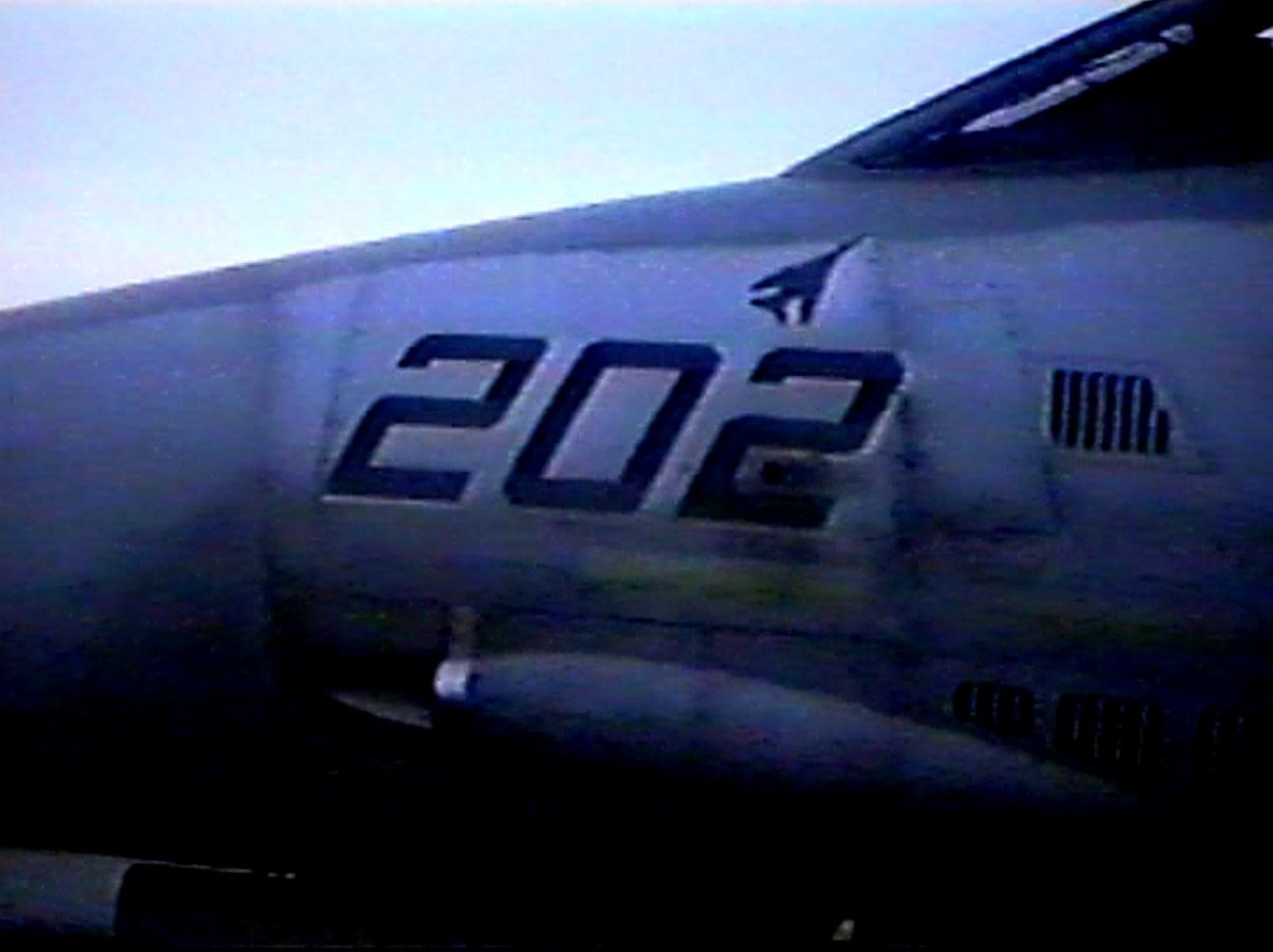 A MiG-23 silhouette can be seen on AC-202, an F-14A from VF-32, after an engagement against the Libyan Air Force over the Mediterranean on 4 January 1989. The silhouette was removed from this aircraft and two Libyan flags, each representing the kills acheived by the squadron during the deployment, were painted onto AC-201 prior to VF-32 returning from cruise.